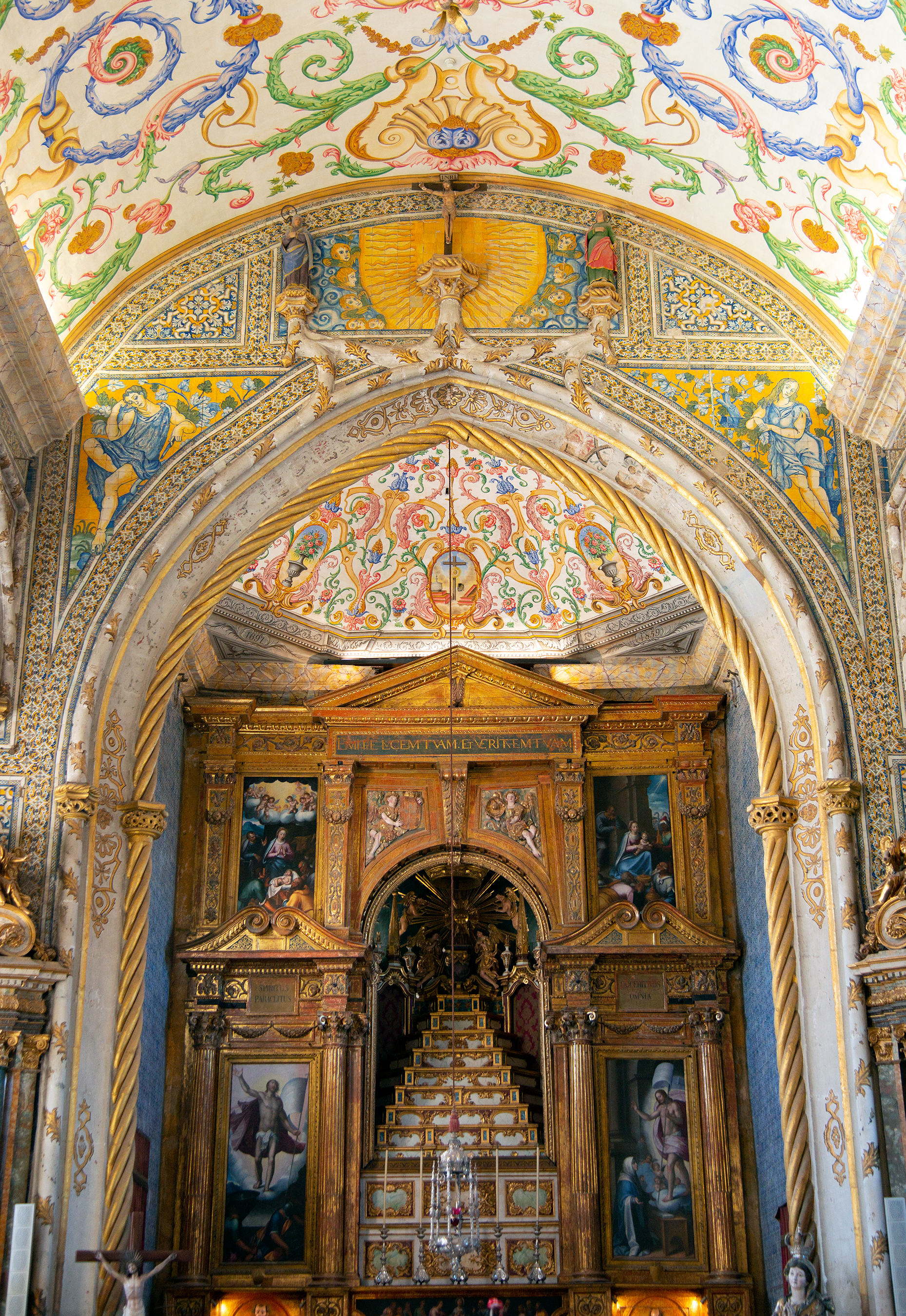 Chapel construction and modifications were completed in 1739. São Miguel Chapel in Coimbra